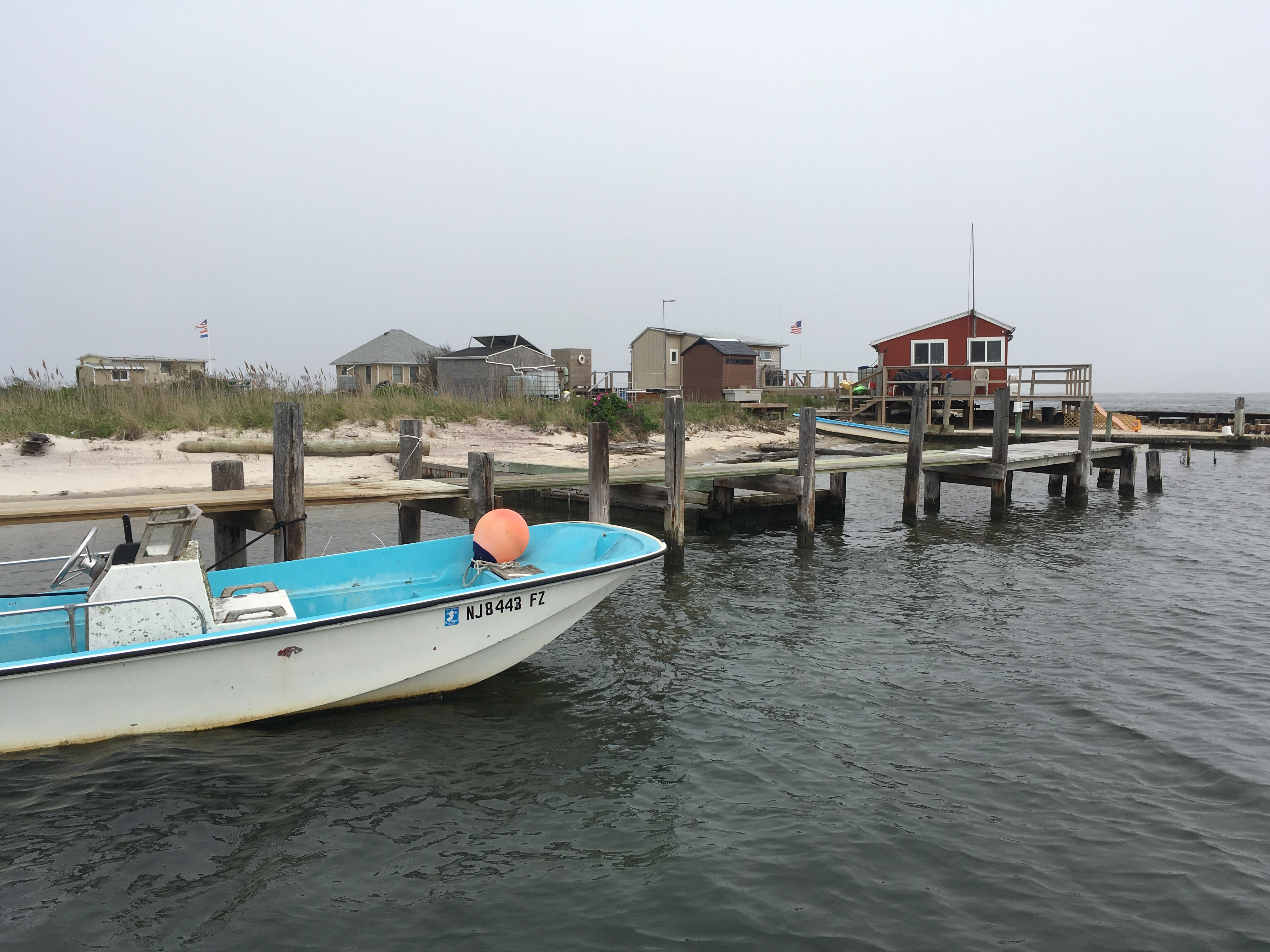 Modest shacks at Captree Island